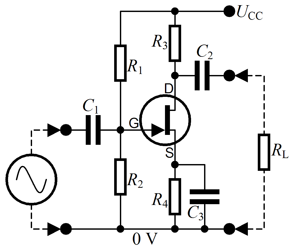 Diagram of Common Source amplifier stage, utilizing a Field Effect Transistor (FET) Drawn using the "Autoshape" feature in MS Word '97, then converted to PNG in a graphics application